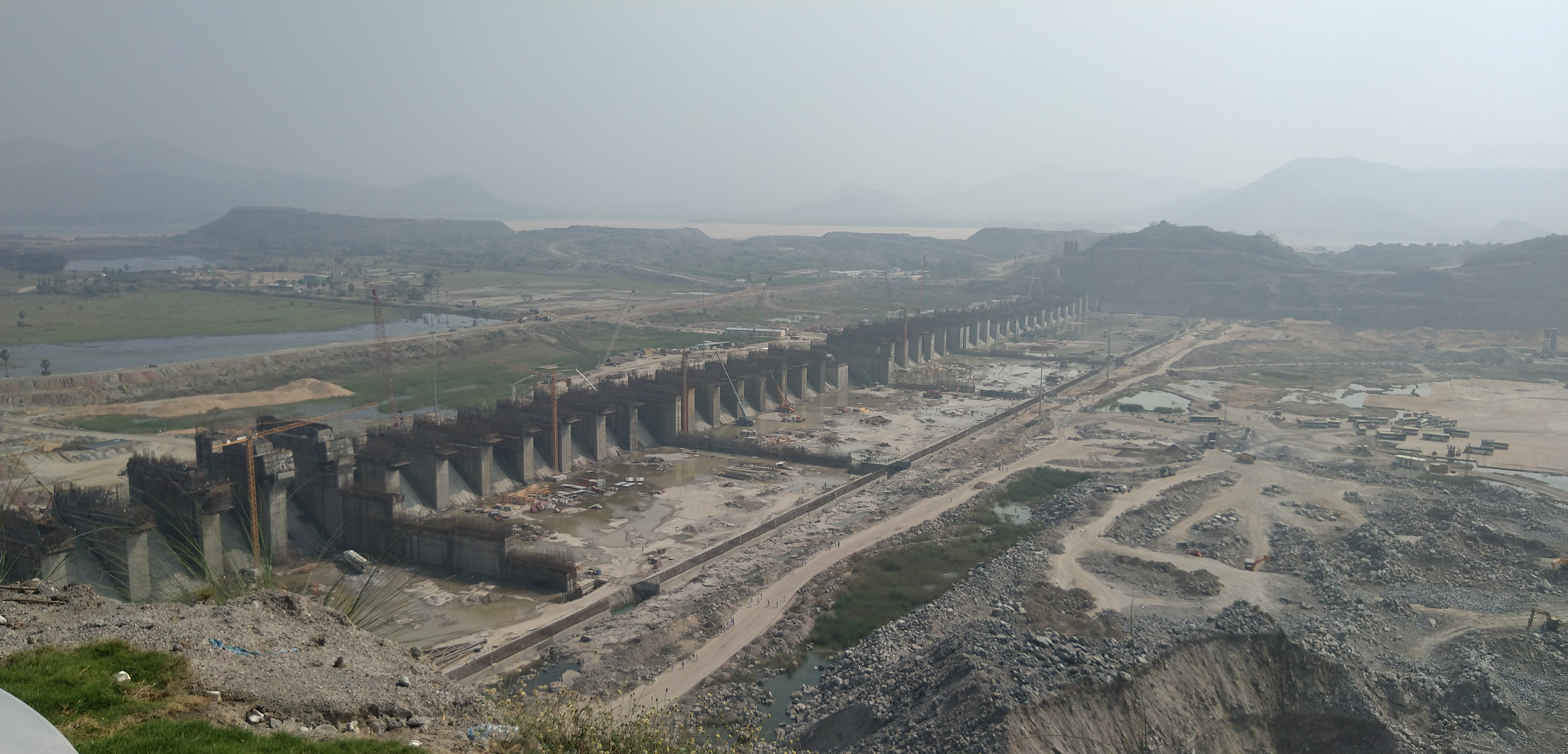 Polavaram dam under construction Аҧсшәа: నిర్మాణంలో పోలవరం ఆనకట్ట